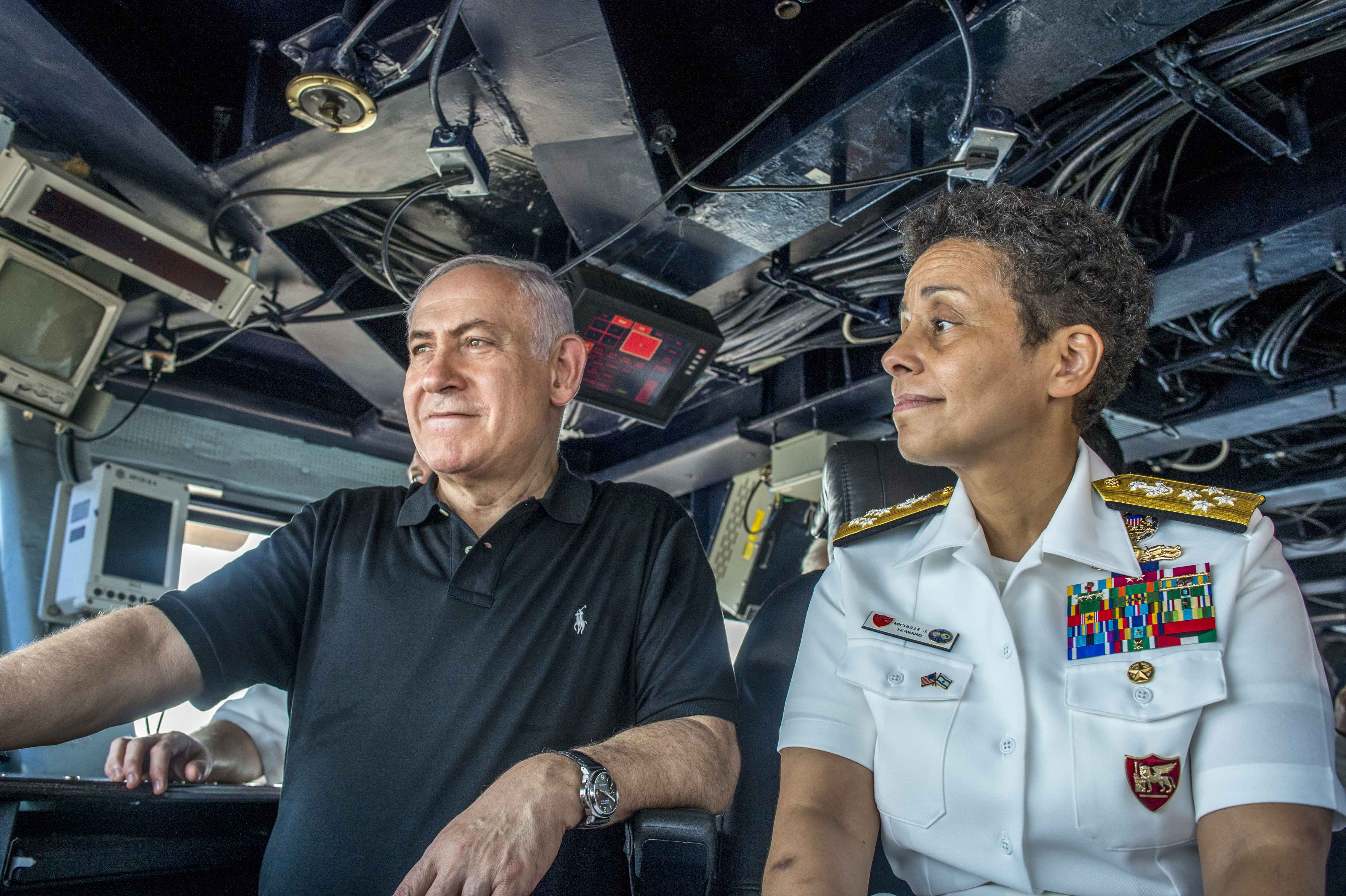 170703-N-AF077-899 HAIFA, Israel (July 3, 2017) Israeli Prime Minister Benjamin Netanyahu, left, speaks with Commander, Naval Forces Europe, Adm. Michelle Howard about U.S. military operations on the bridge of the aircraft carrier USS George H.W. Bush (CVN 77) during a visit to the ship. The visit was conducted to strengthen U.S.-Israel relations and the two nations commitment to stability in the region. The ship and its carrier strike group are conducting naval operations in the U.S. 6th Fleet area of operations in support of U.S. national security interests in Europe and Africa. (U.S. Navy photo by Mass Communication Specialist 1st Class Sean Hurt/Released)